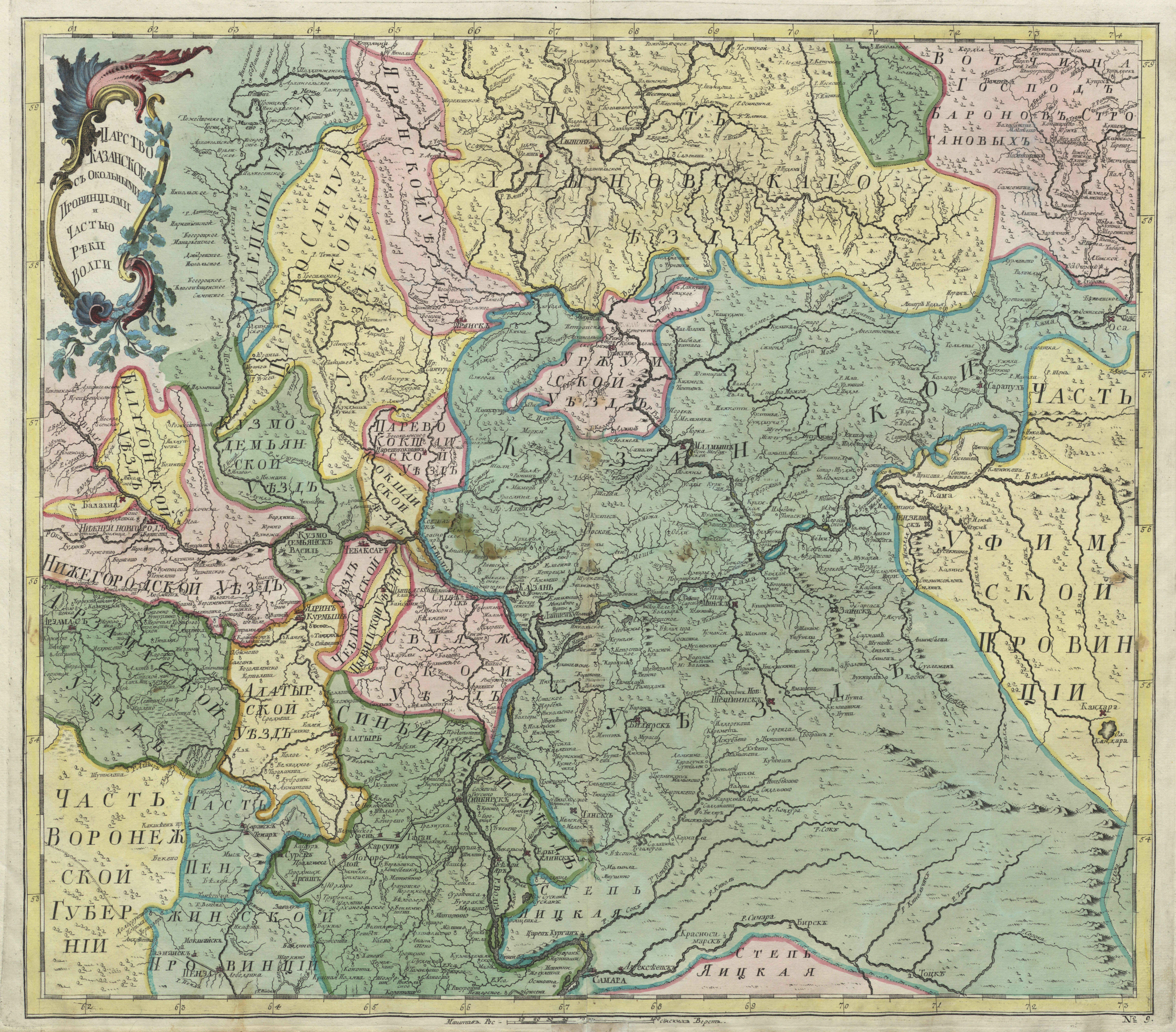 First official geographic atlas of the Russian Empire (1745). Map of Kazan governorate, nearest provinces and part of Volga river. Hand-coloured copper engraving.